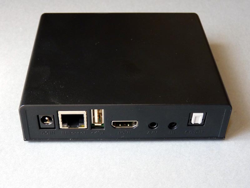 Back panel connections of the Telestar B1 SAT-IP client